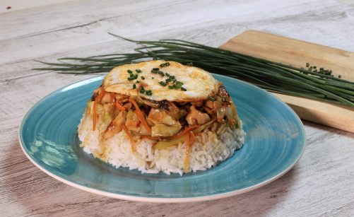 A Bol-renverse is a dish of Reunionese and Mauritian kitchens of Chinese origin. It is a mound of rice covered with an egg that is placed in the plate where it is served by reversing the bowl that originally contains it.